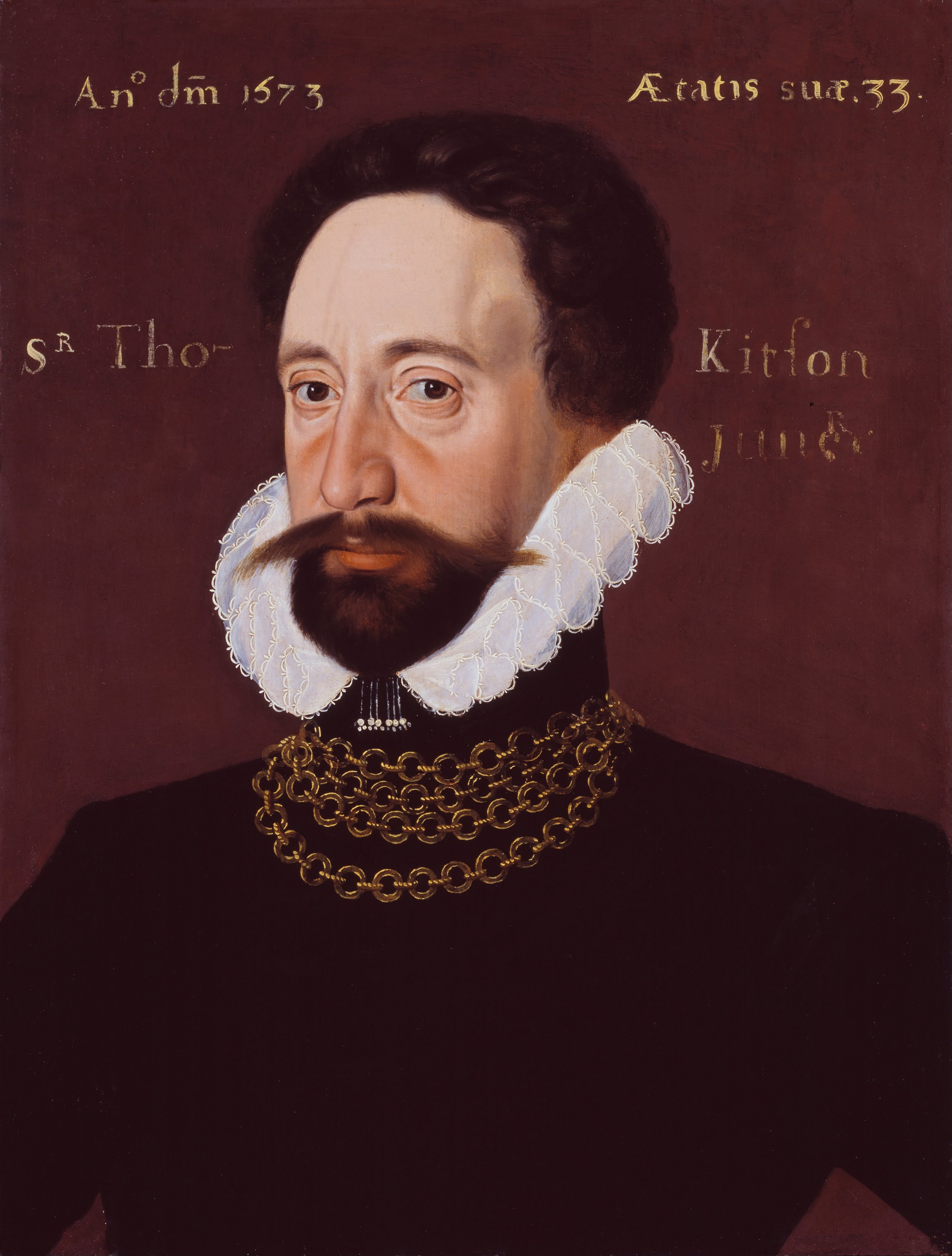 Sir Thomas Kytson, (born 9 October 1540, died 28 January 1602), husband of Lady Kytson née Elizabeth Cornwallis.